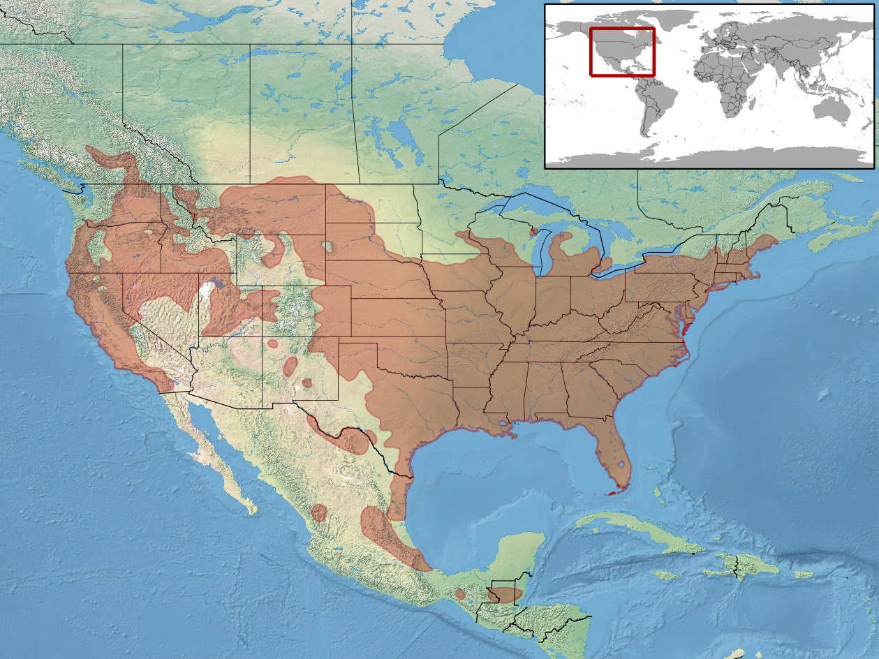 geographic distribution of Coluber constrictor (Native: Belize; Canada; Guatemala; Mexico; United States)